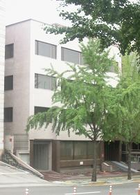 Embassy of the Republic of South Africa in Seoul